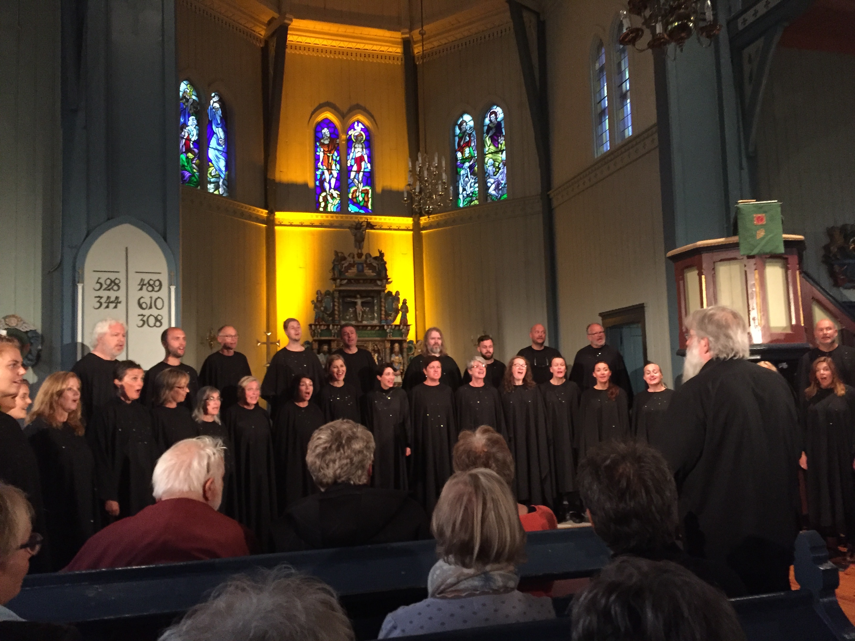 The Norwegian choir SKRUK performing in Hjørundfjord church in Sæbø, Møre og Romsdal, Norway august 2017. Conductor is Per Oddvar Hildre.